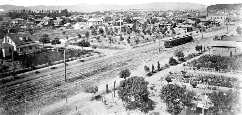 A streetcar goes along Santa Monica Boulevard, in Sawtelle, 1890. At the time, Sawtelle was an independent town and on the way between Los Angeles and the new growing town of Santa Monica.